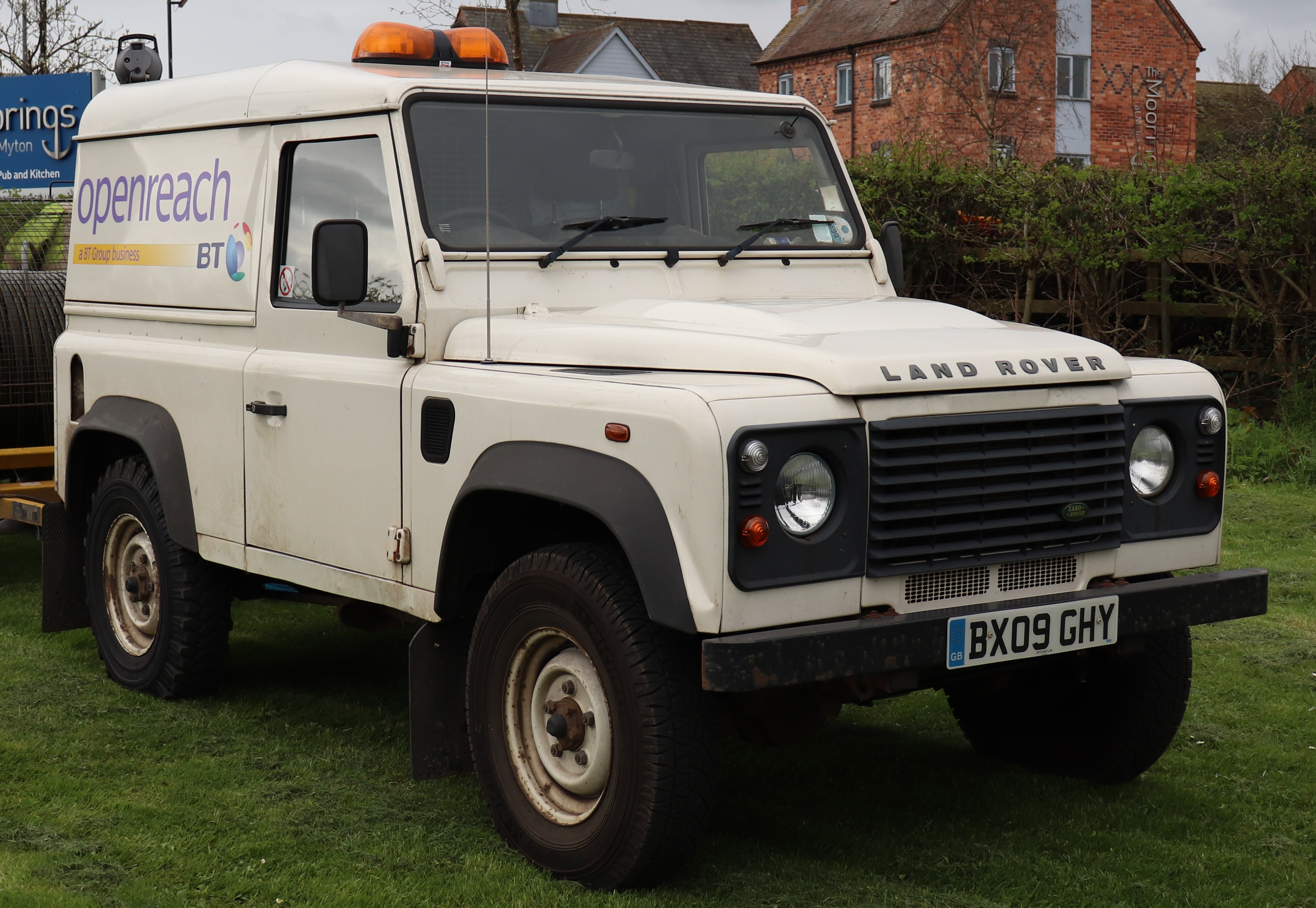 2009 Land Rover Defender 90 Hardtop 2.4 BT Openreach Taken in Leamington Spa